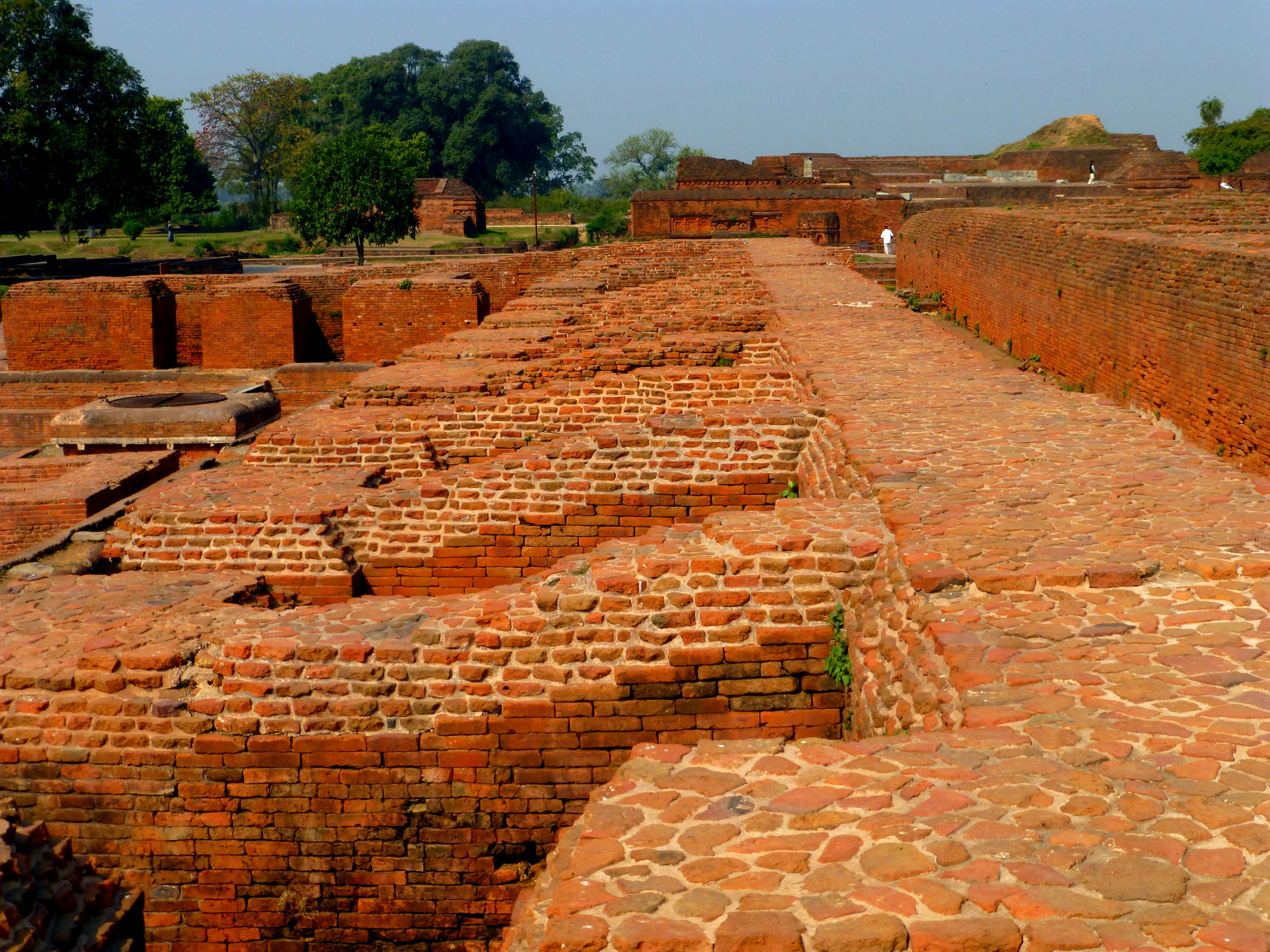 040 Ruins of Monasteries at Nalanda Photograph from the ruins of Nalanda in Bihar taken by Anandajoti.